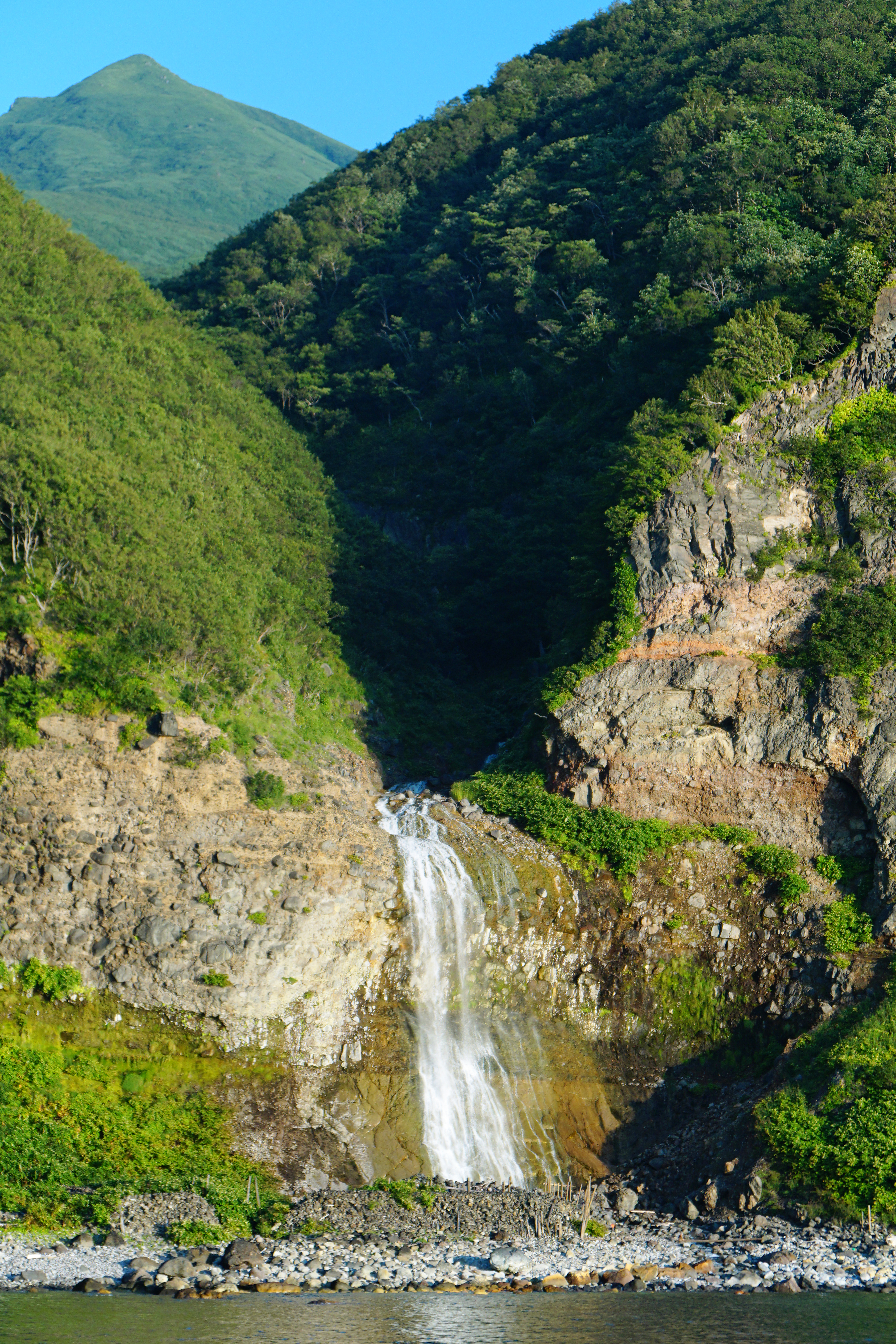 Kamuiwakka Falls and Mount Iō (Shiretoko) in Shari, Hokkaido prefecture, Japan.